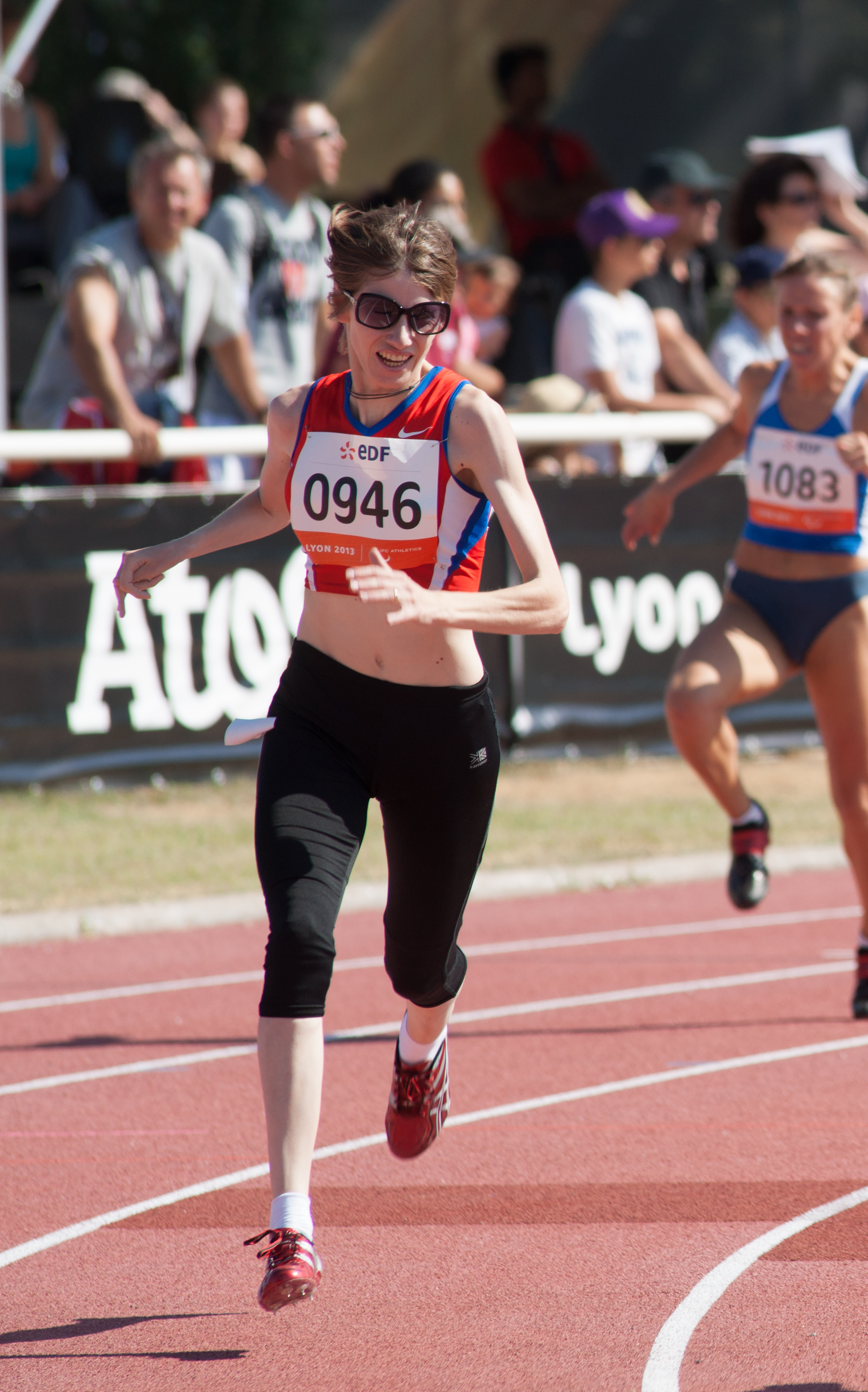 Russia's Evgeniya Trushnikova on her way to winning gold in the women's T37 400 metres at the 2013 IPC Athletics World Championships in Lyon. In the distance, wearing bib 1083 is eventual bronze medalist Viktoriya Kravchenko of the Ukraine.